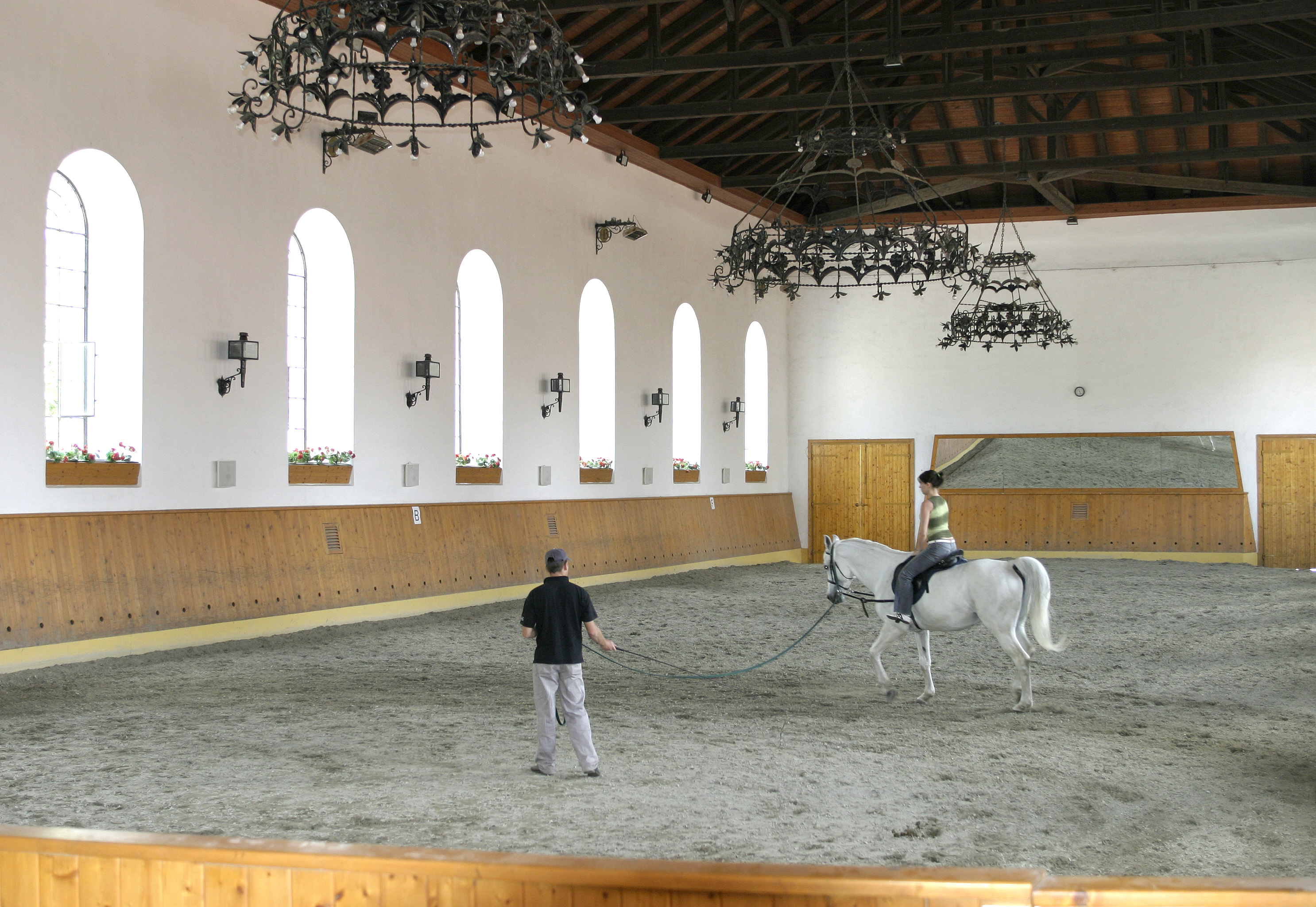 Riding house in the parkarea of the national stud in Bábolna/Hungary